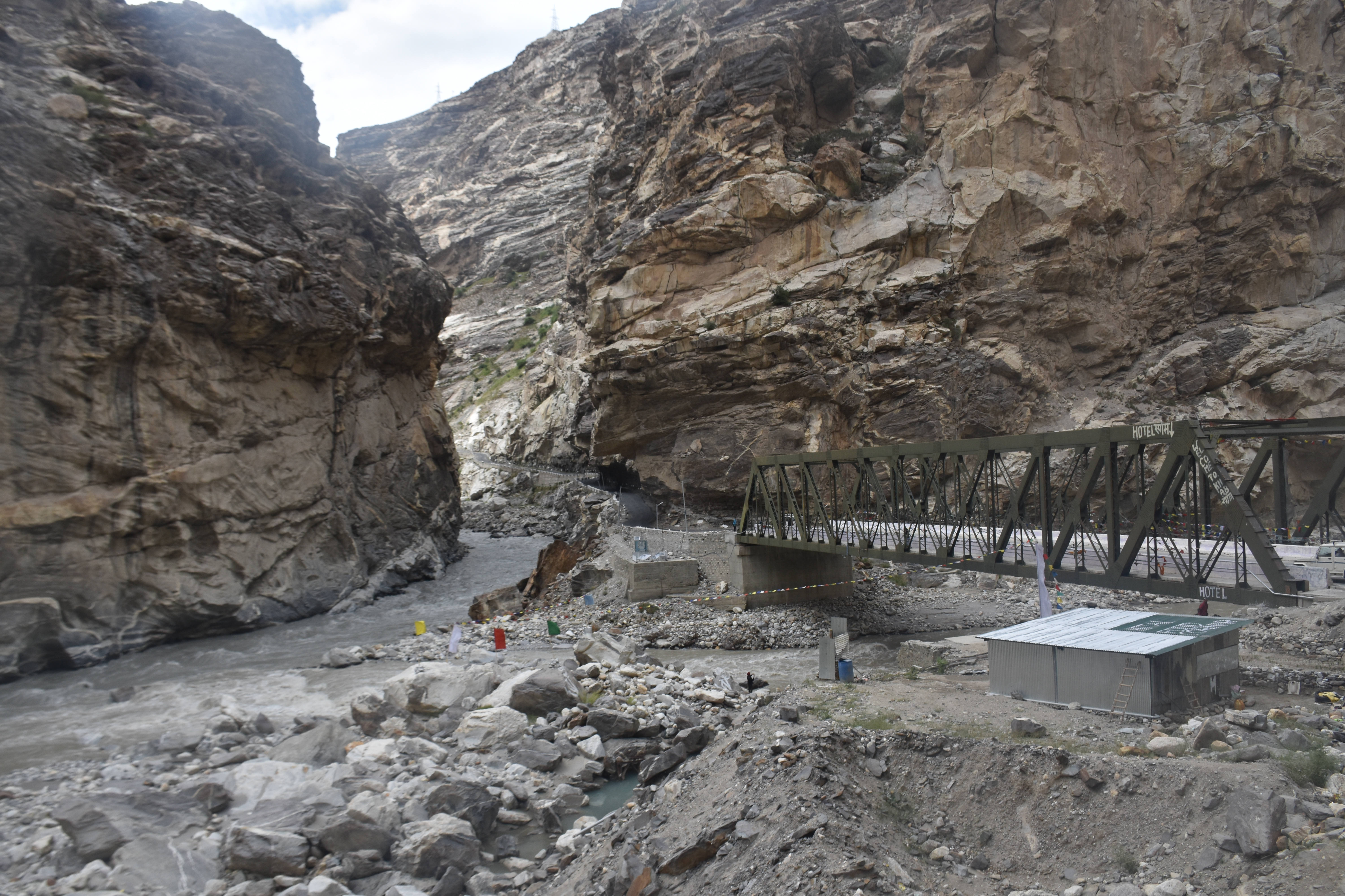 Confluence of the Spiti with the Satluj at Khab. The Satlj flows from right to left, the Spiti enters from the gorge in top centre. 17 Jun 2018